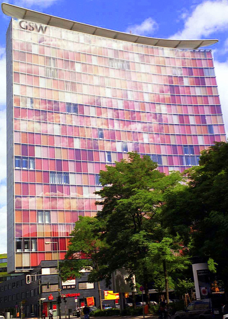 Not good quality but interesting photo of a multicolor building in Berlin.